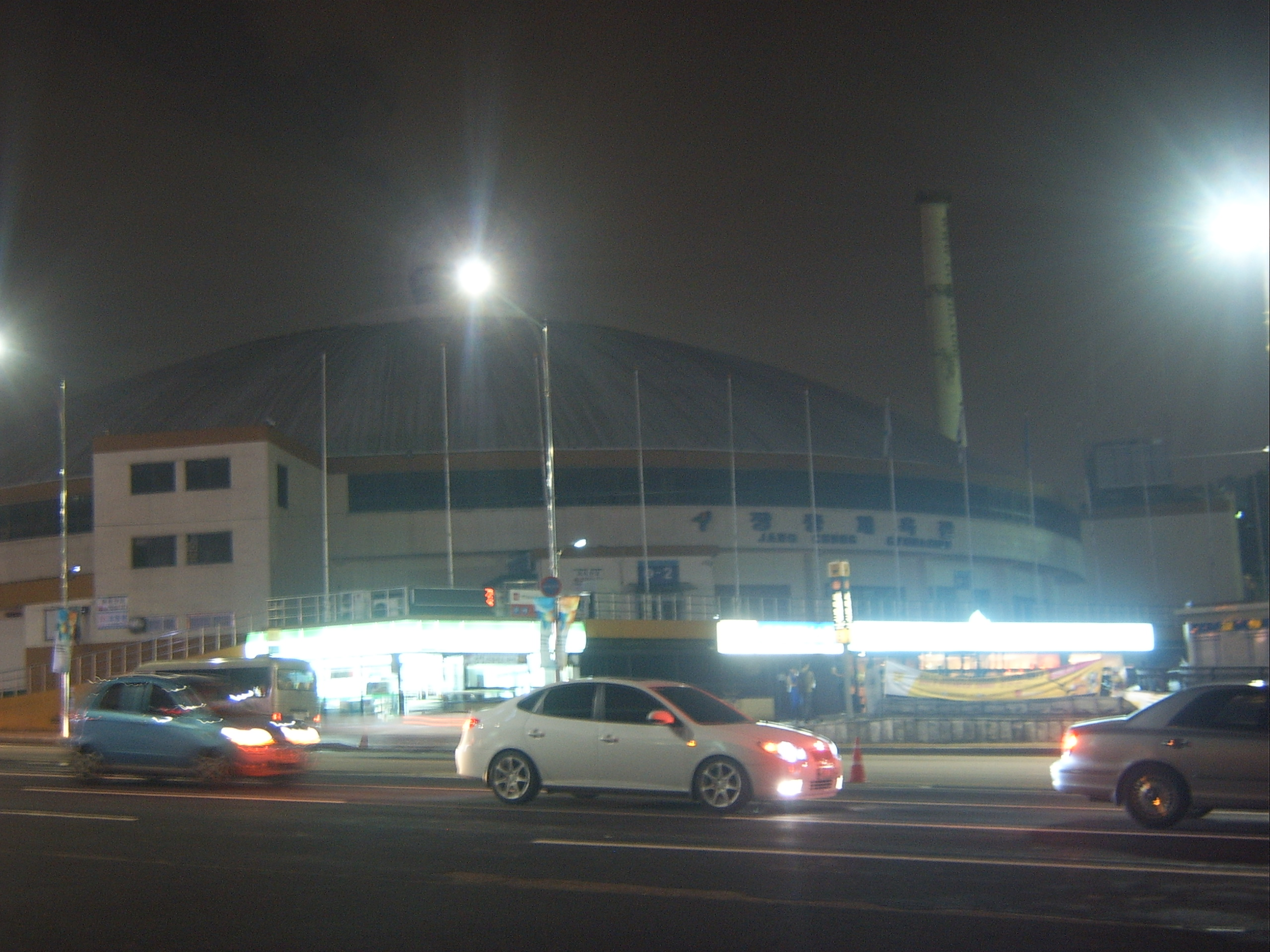 Seoul Jangchung gymnasium